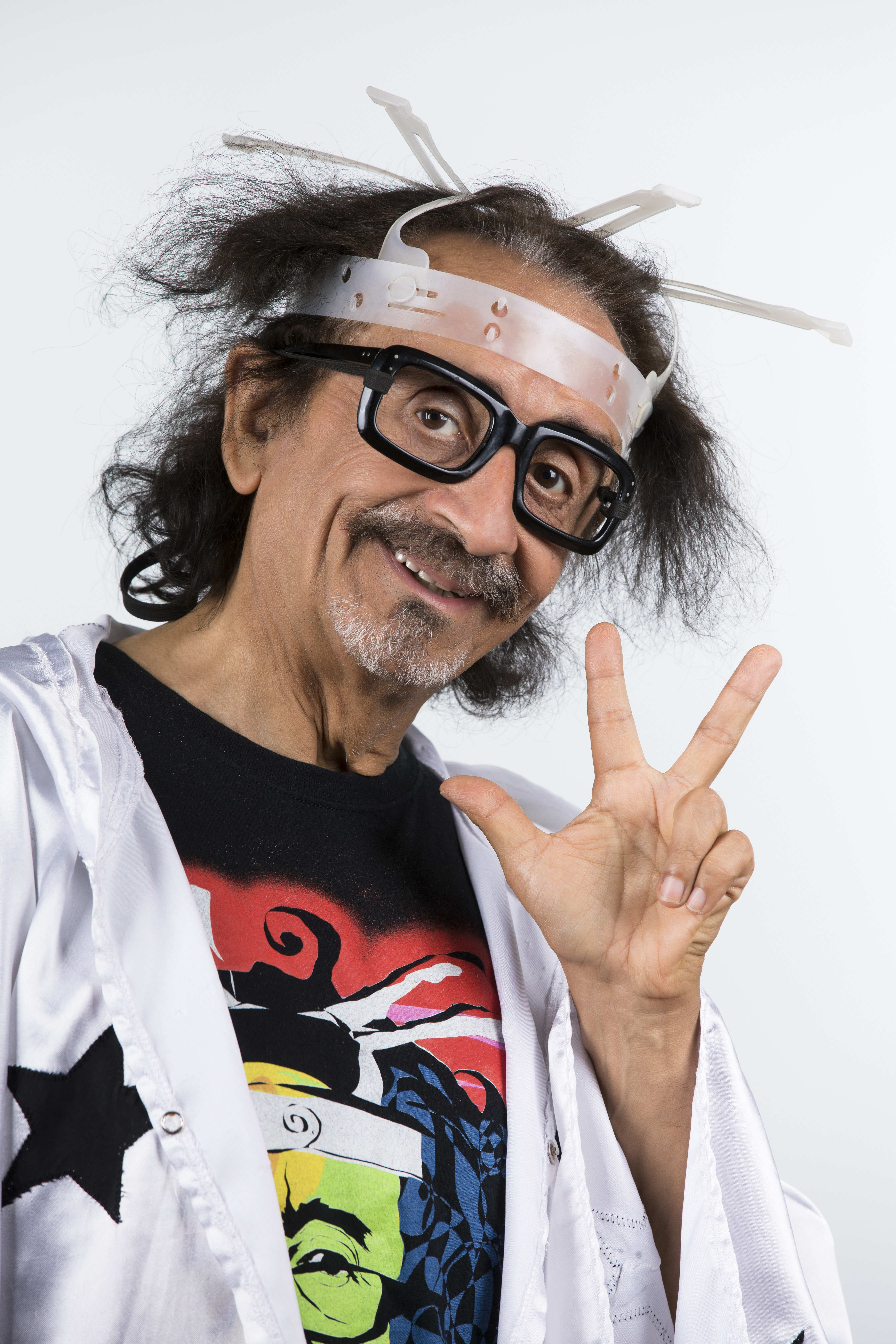 Raúl Florcita Alarcón Rojas en la fotografía oficial de diputados periodo 2018-2022. (Fotos: Christel Andler, René Lescornez, Johanna Zárate)